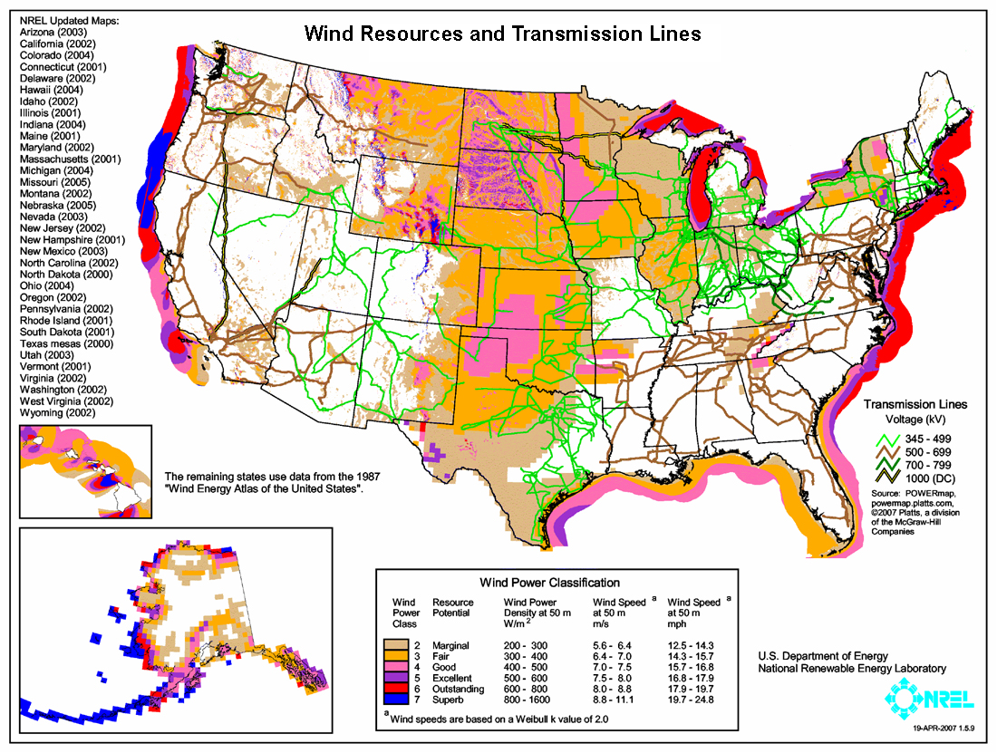 Map showing estimated wind resources and existing power transmission lines for the United States.